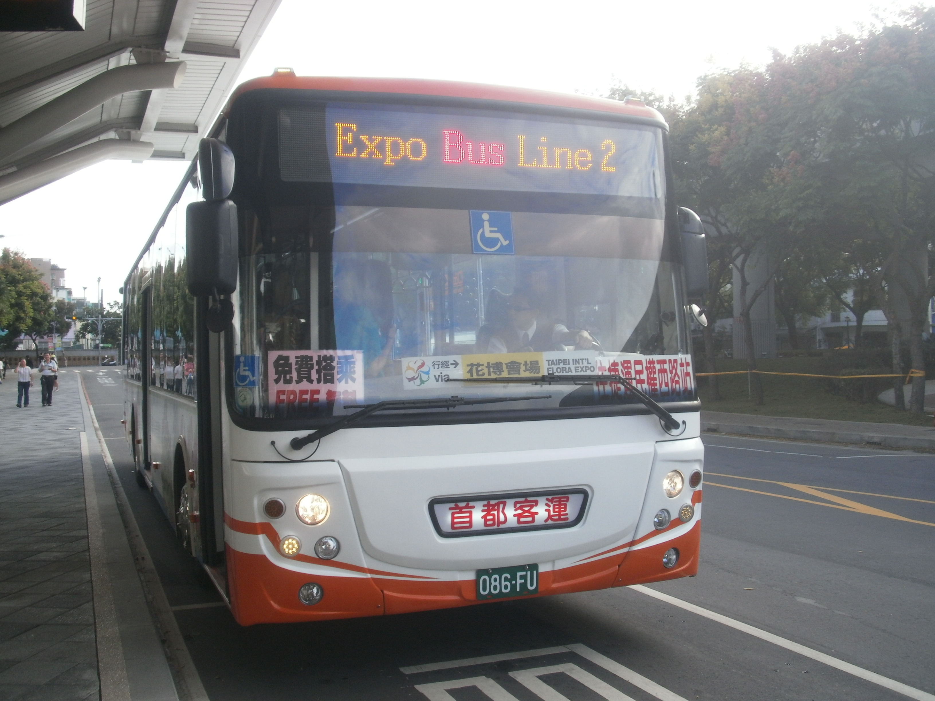 Expo Bus Line2